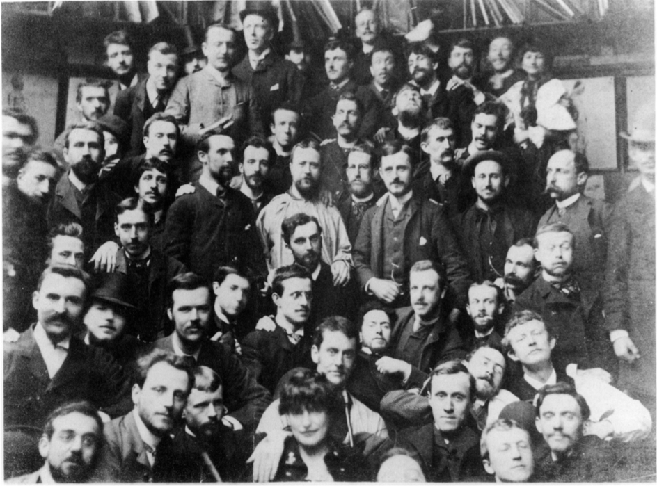 Portrait of students, Académie Julian, France. Among them are American artists Arthur W. Dow. (Centre, beneath the person in the light coat) and John Vanderpoel (lower row, all right, with moustache)